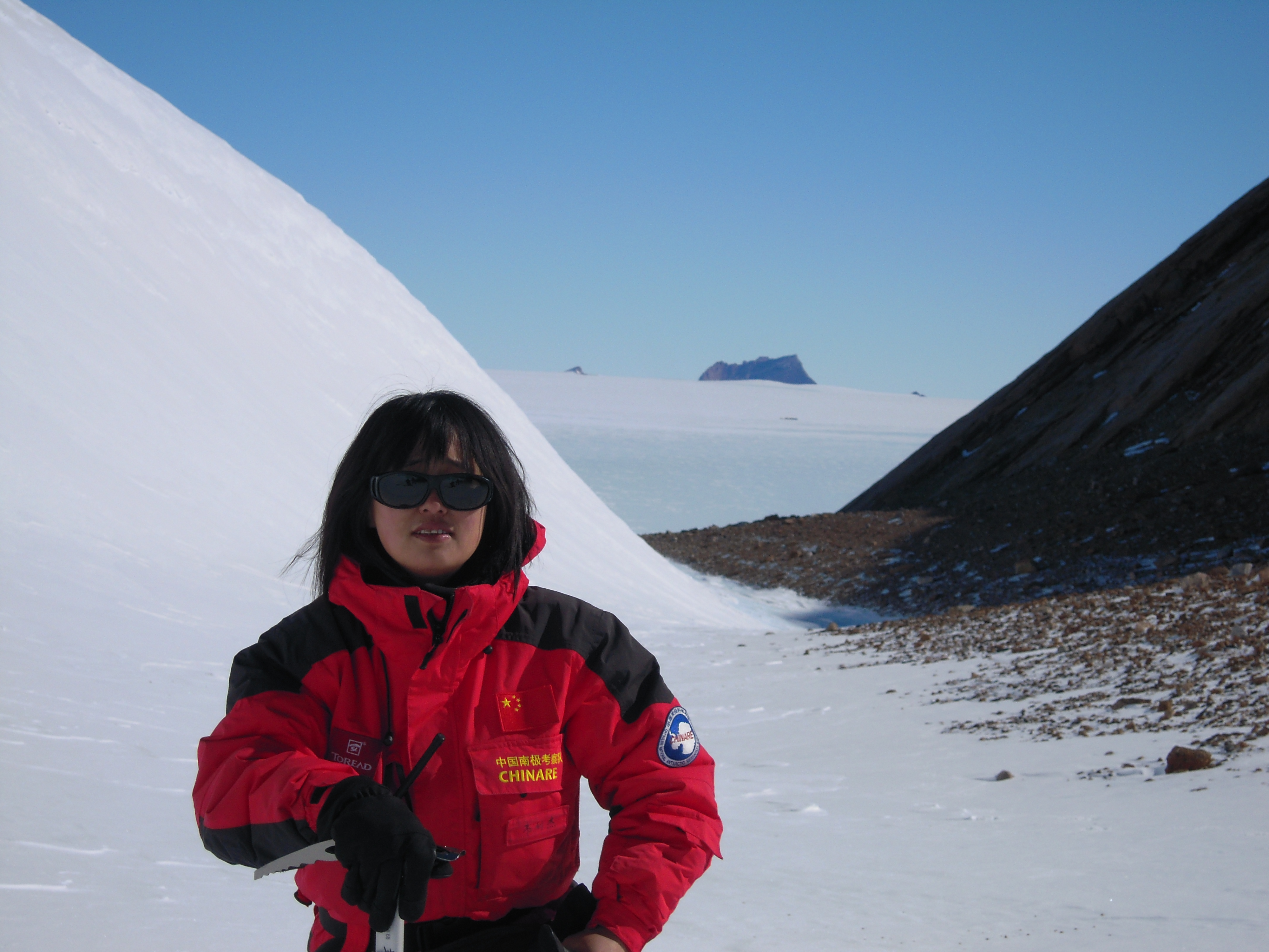 Wei in Antarctica 2010